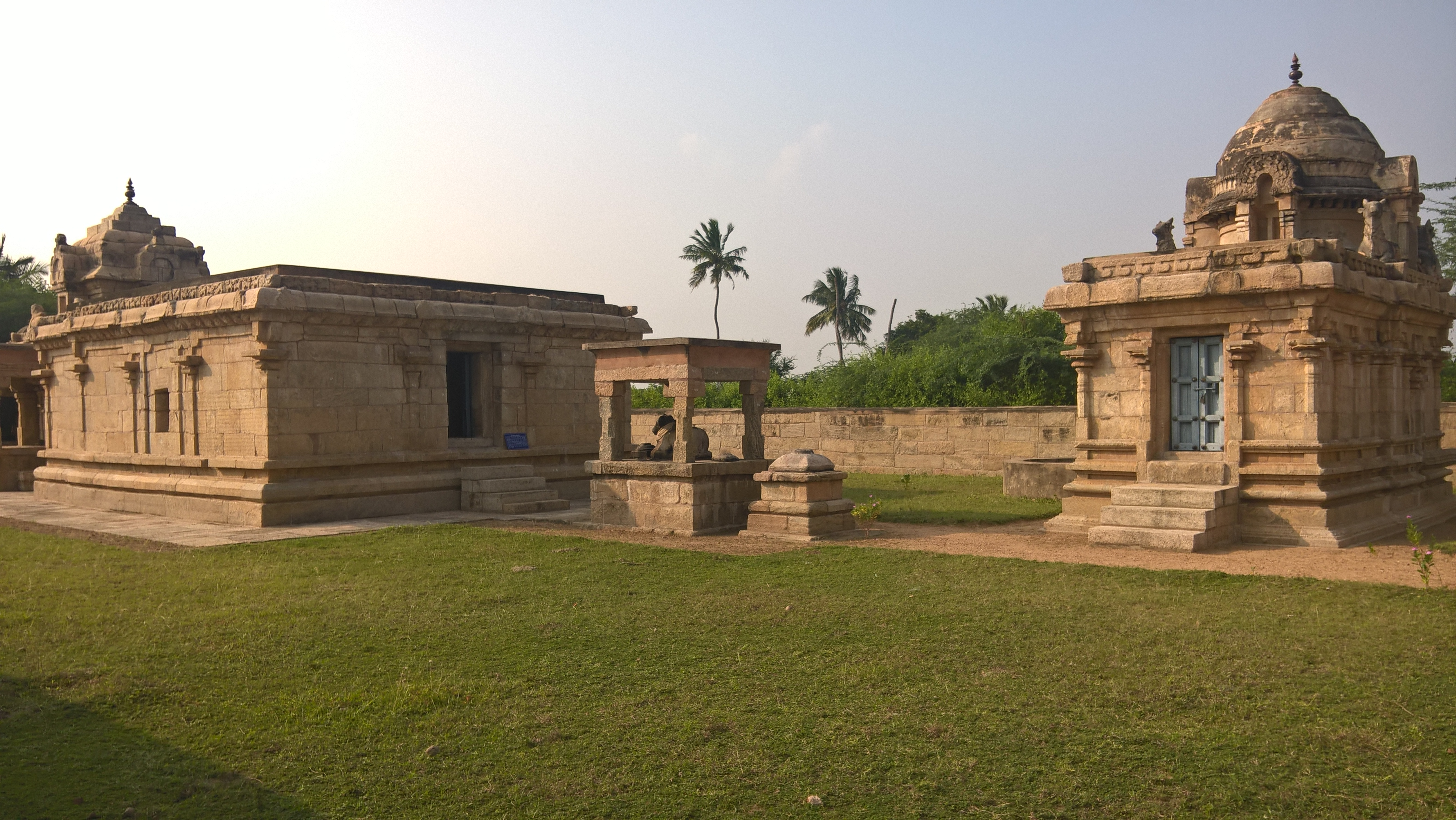 Keelathaniyam Shiva temple